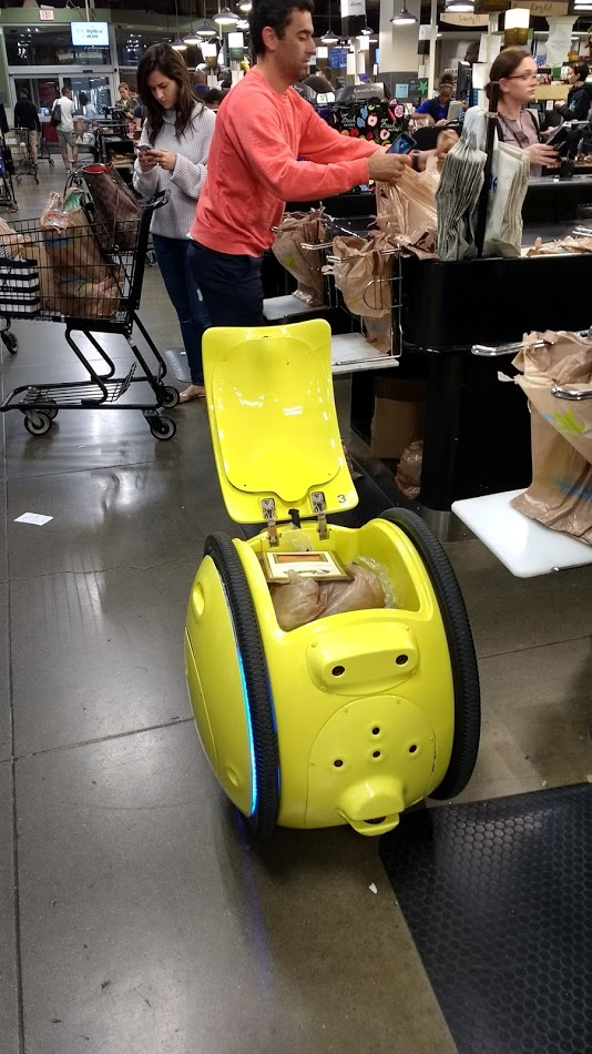 A Gita robot being packed with groceries at a Boston area supermarket.